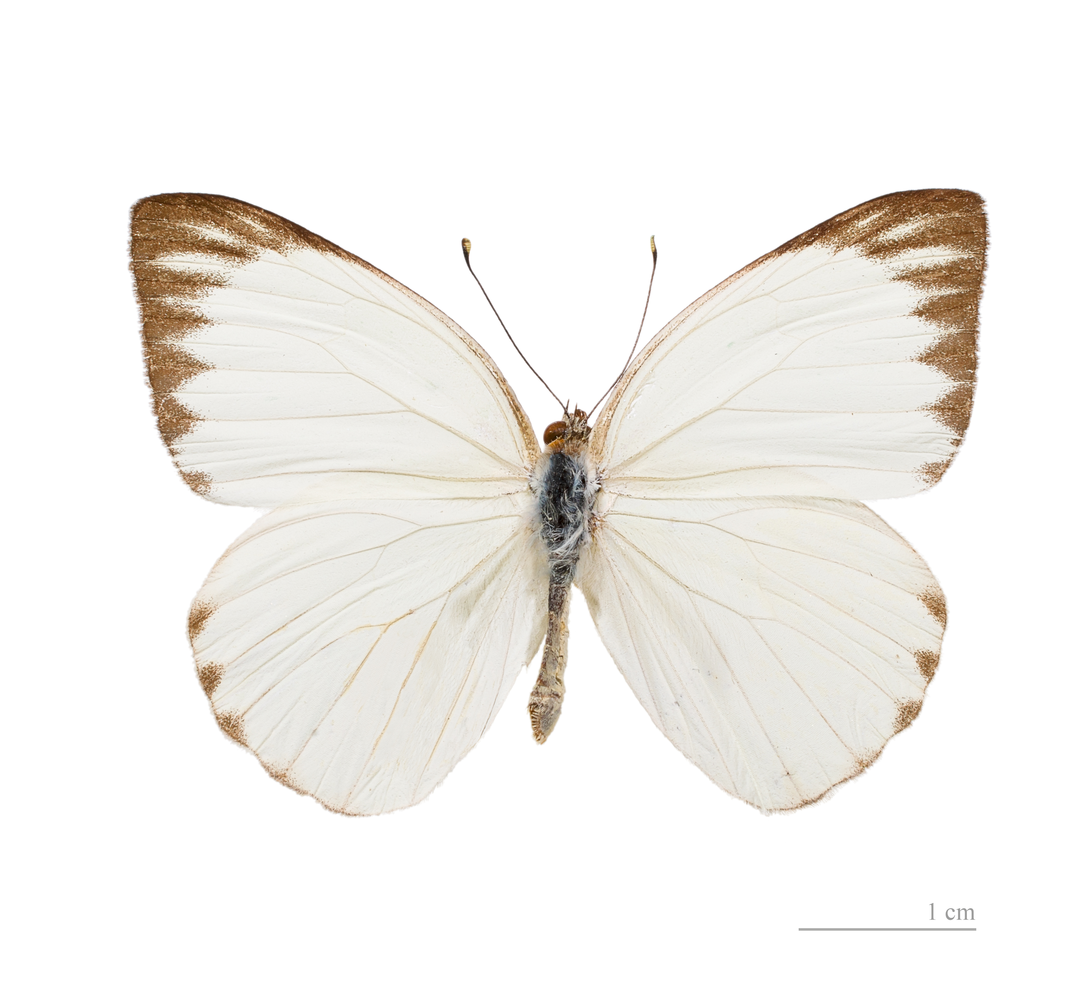 Great Southern White ♀ - Dorsal side Locality : Iracoubo, French Guiana.